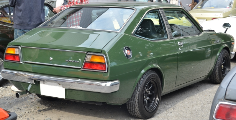 Toyoyota Publica Starlet SR